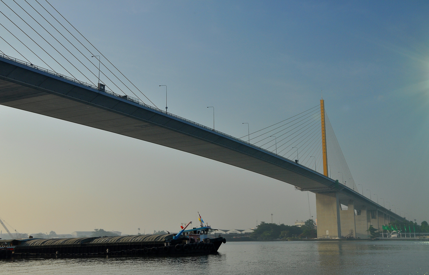 Rama IX Bridge in Bangkok